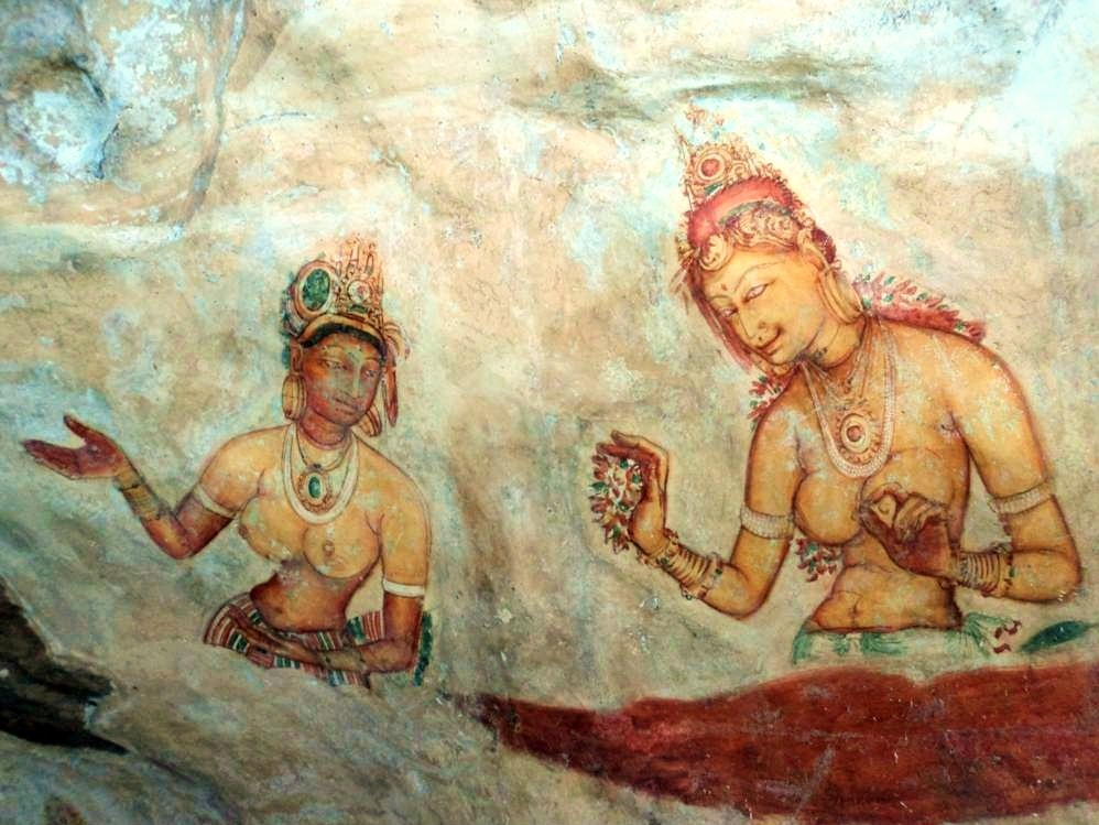 Paintings on Sigiriya rock.